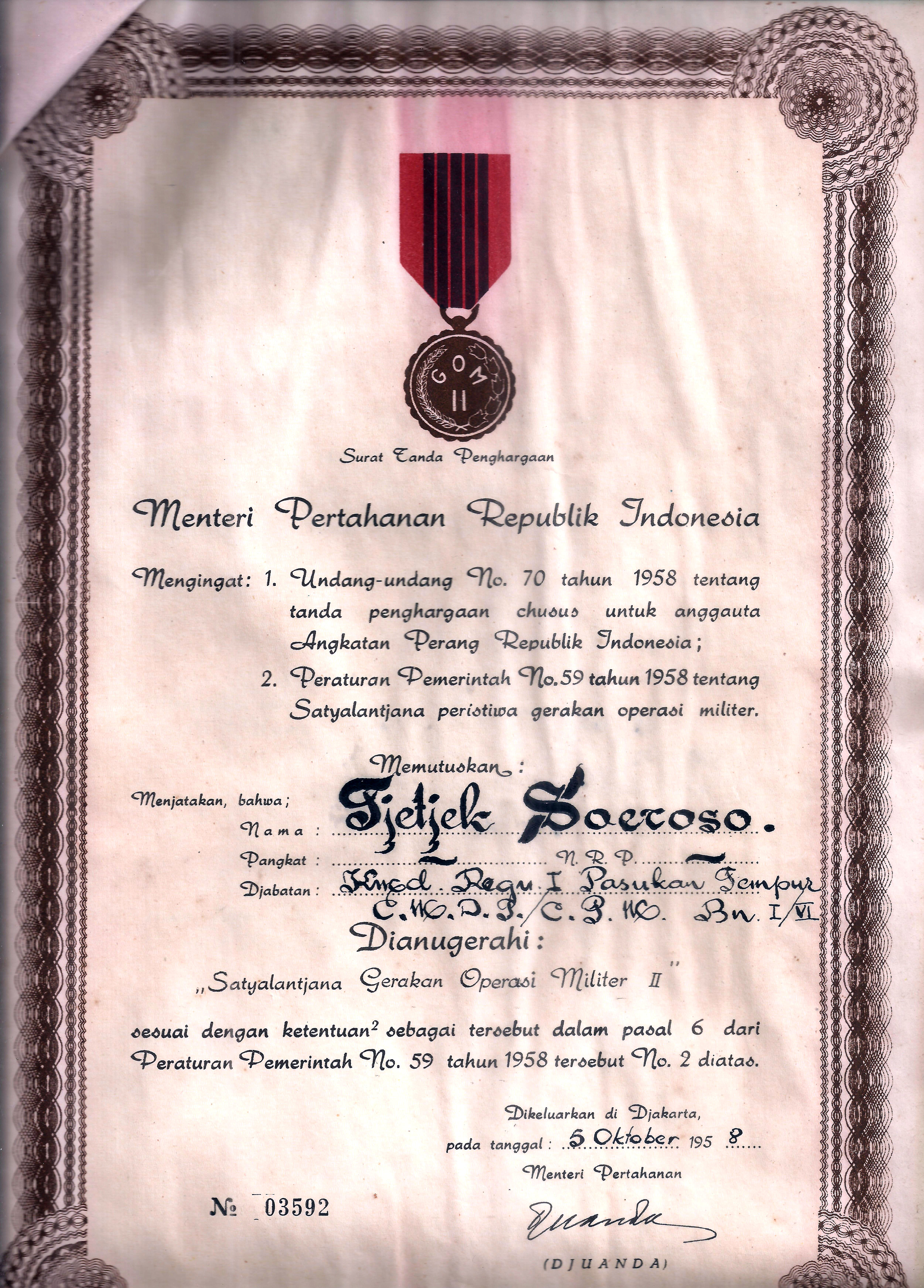 Gerakan Operasi Militer II diploma as received by my grandfather